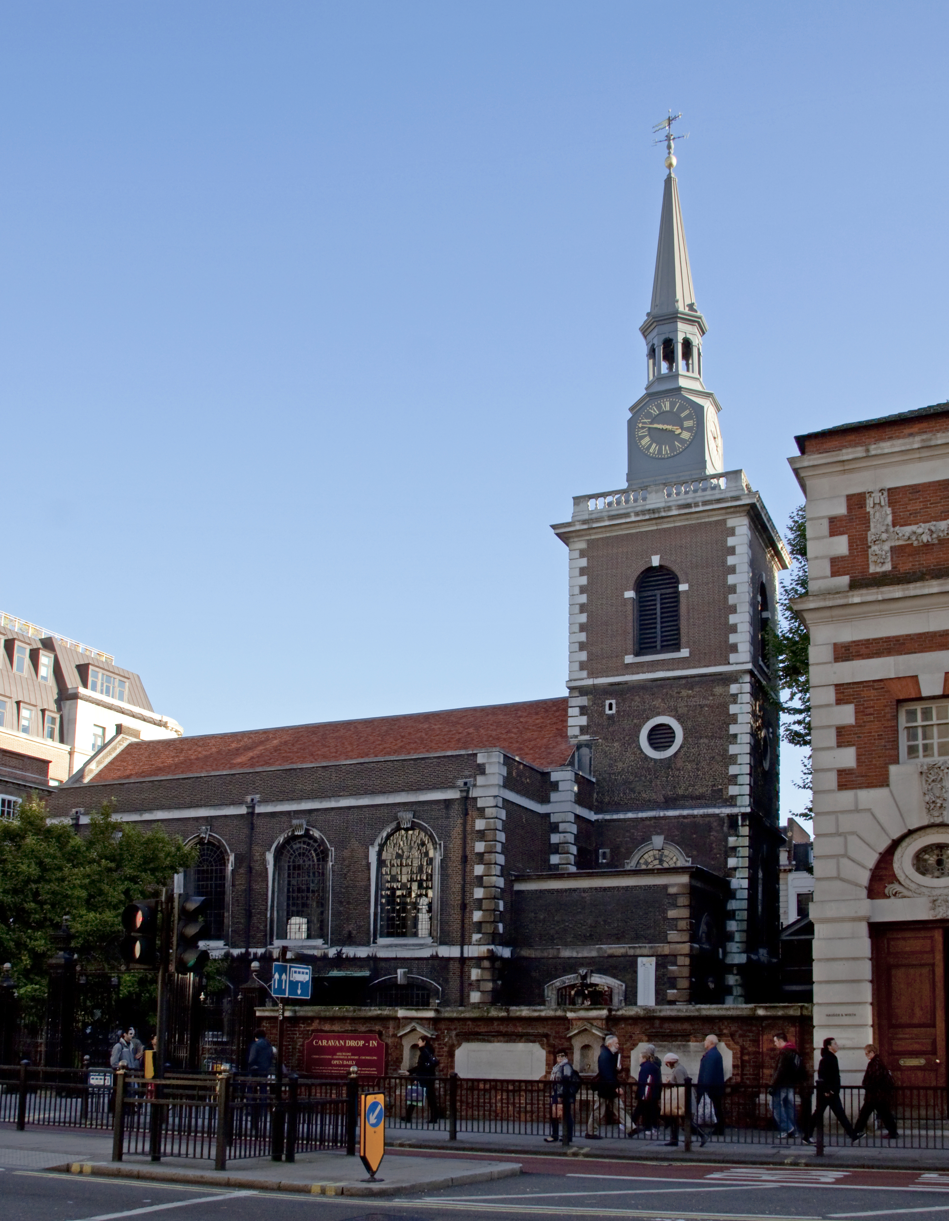 Designed by Sir Christopher Wren and built between 1676 and 1684